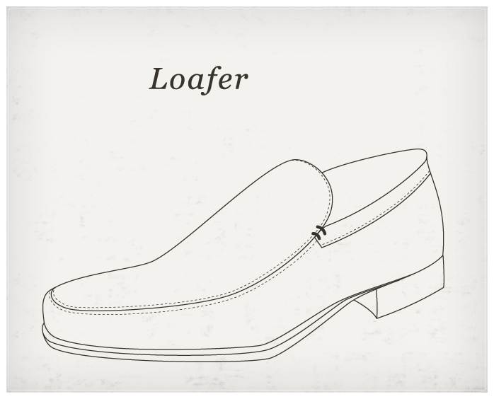 Loafer is a comfortable shoe which firstly wore american students at the beginning of 20th century.